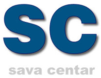 Sava Centar logo